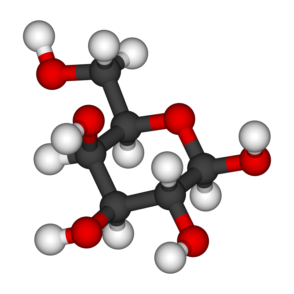 Galactose